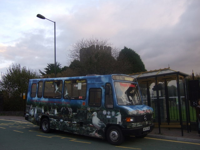 The Poppit Rocket Photographically adorned with appropriate scenery, this shuttle bus takes the roundabout coastal route between Fishguard or Newport and Cardigan, daily during the summer, less often in winter. Poppit beach beyond the Teifi estuary is just one of its stopping points for walkers and sightseers. Seen here outside St Mary's church in Finch Square.